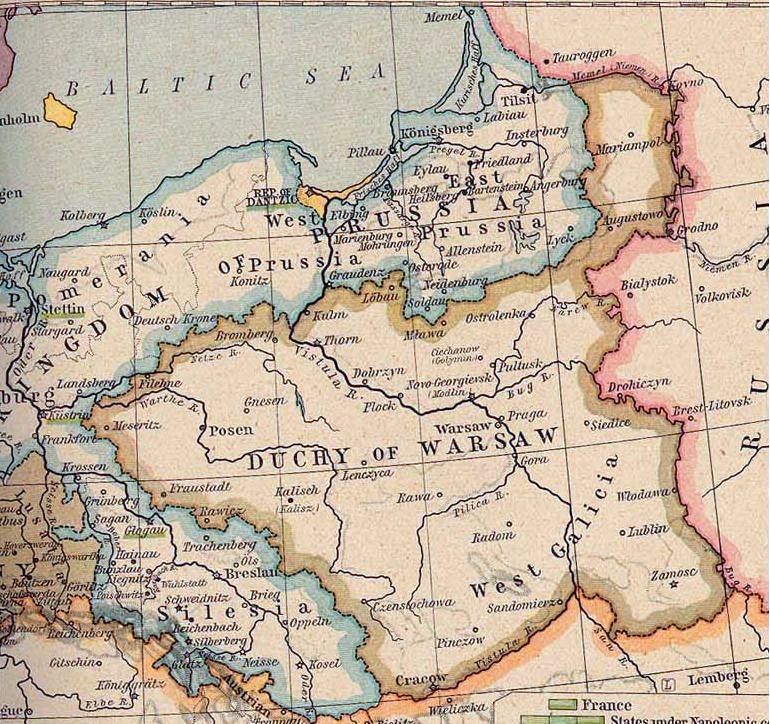 Duchy of Warsaw in 1812